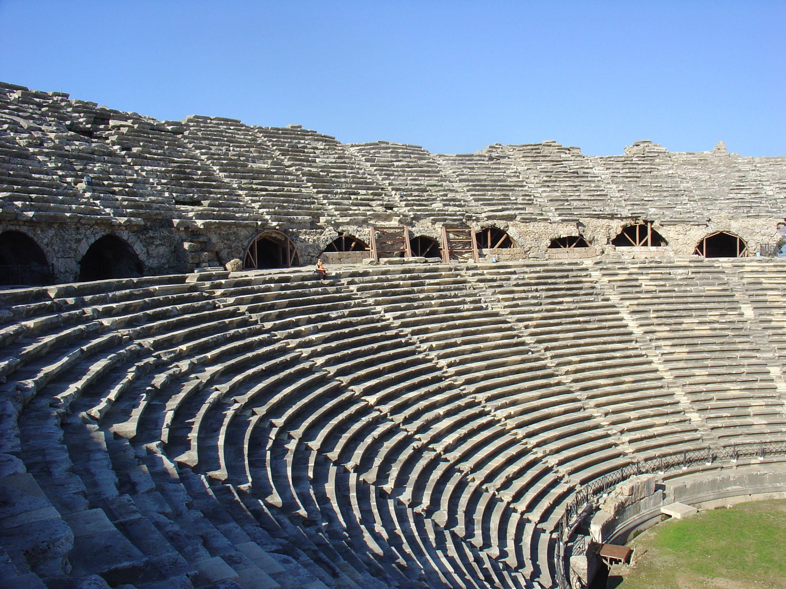 Roman theatre at Side